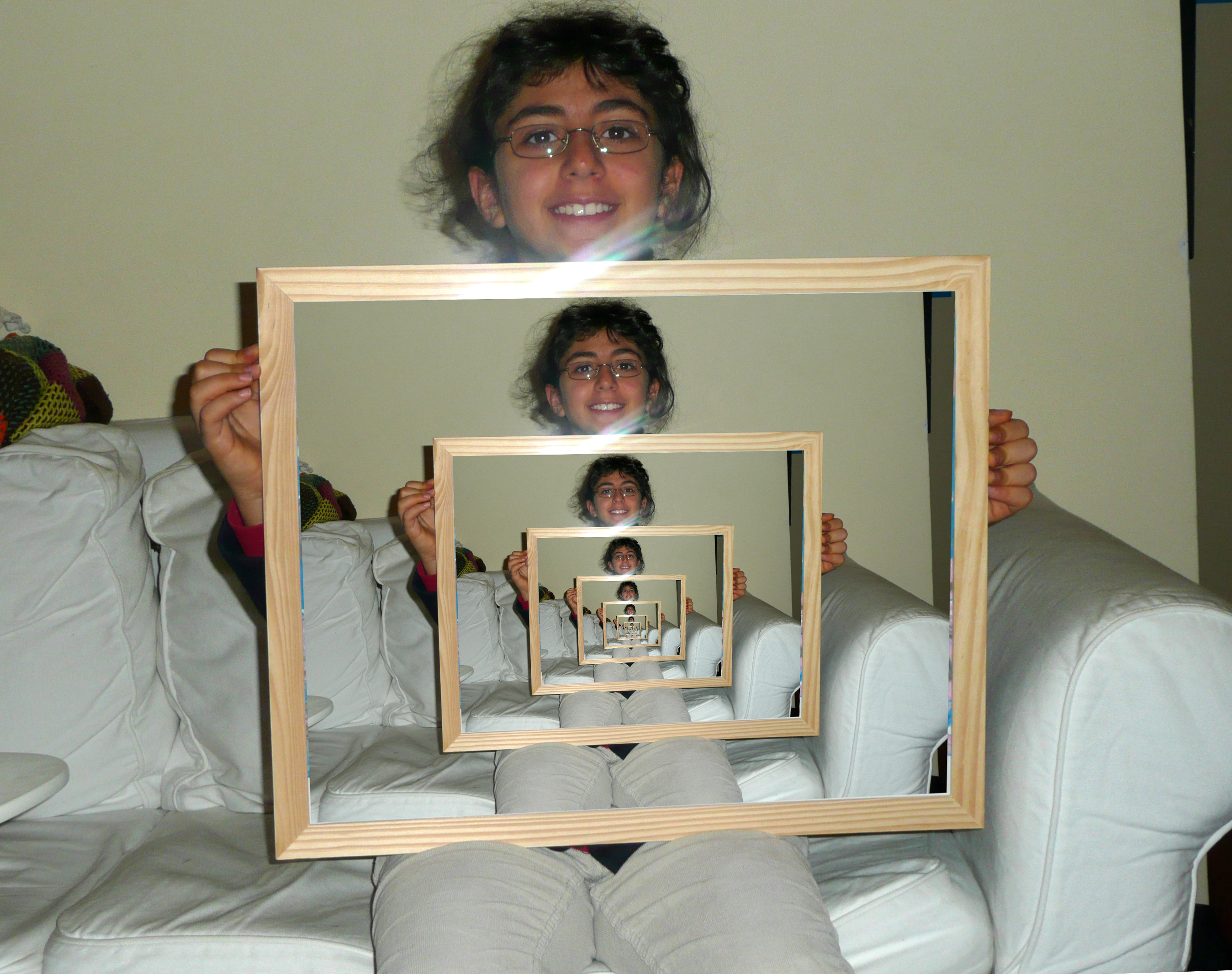 Mirror in mirror effect (not real photography)